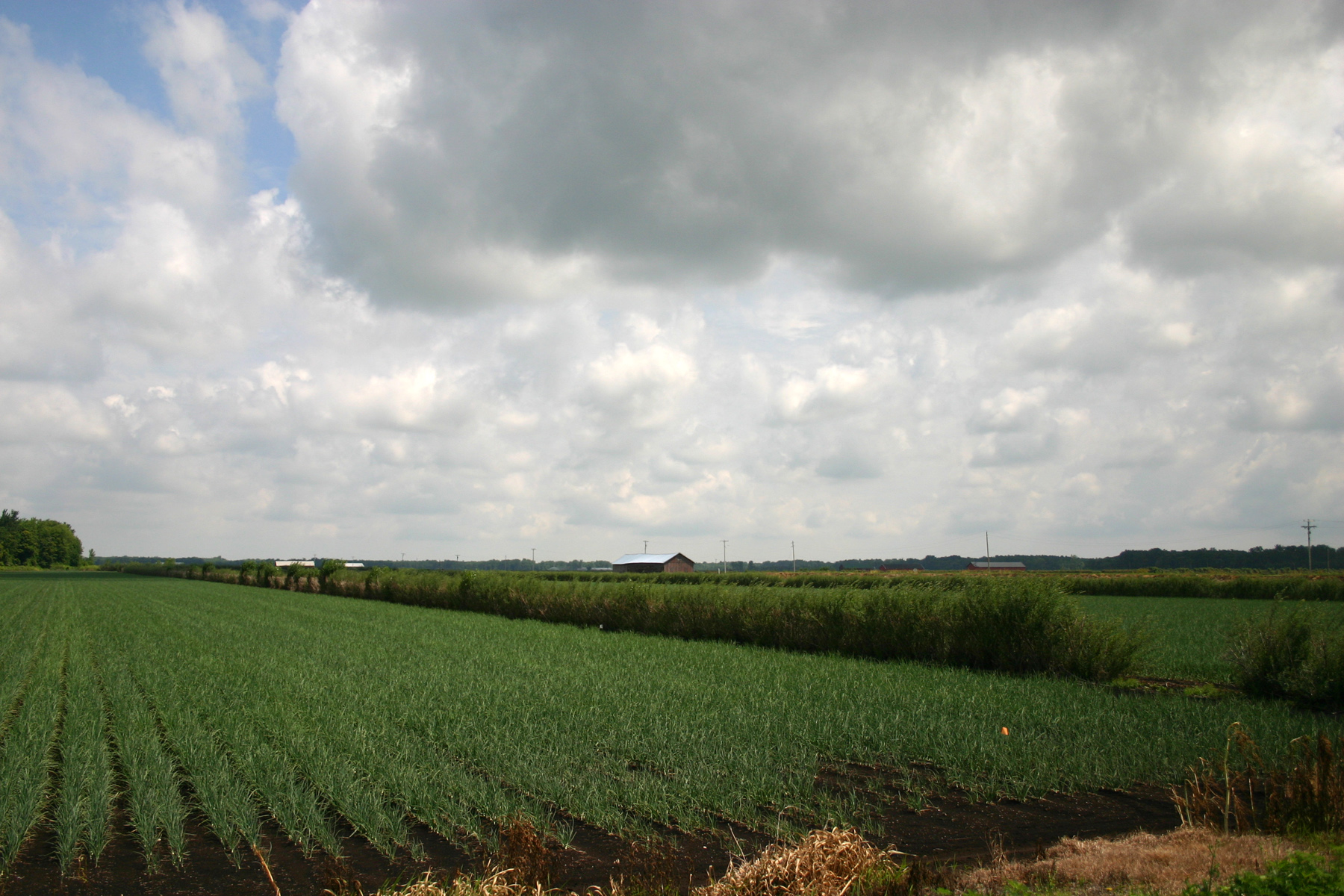 Onion fields on muckland; Elba, New York Image copyleft: Image taken by me, released under GFDL Pollinator 03:55, Nov 9, 2004 (UTC)